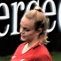 DilaraÖzlemSucuoğlu playing for Turkey women's national football team in the friendly home match against Estonia at TFF Riva Facility on 7 April 2018.